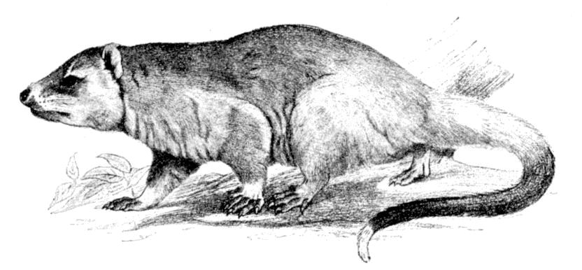 Fig. 84.—Thick tailed Opossum. Didelphys crassicaudata. × 1⁄5. Nowadays this speices is referred to genus Lutreolina.